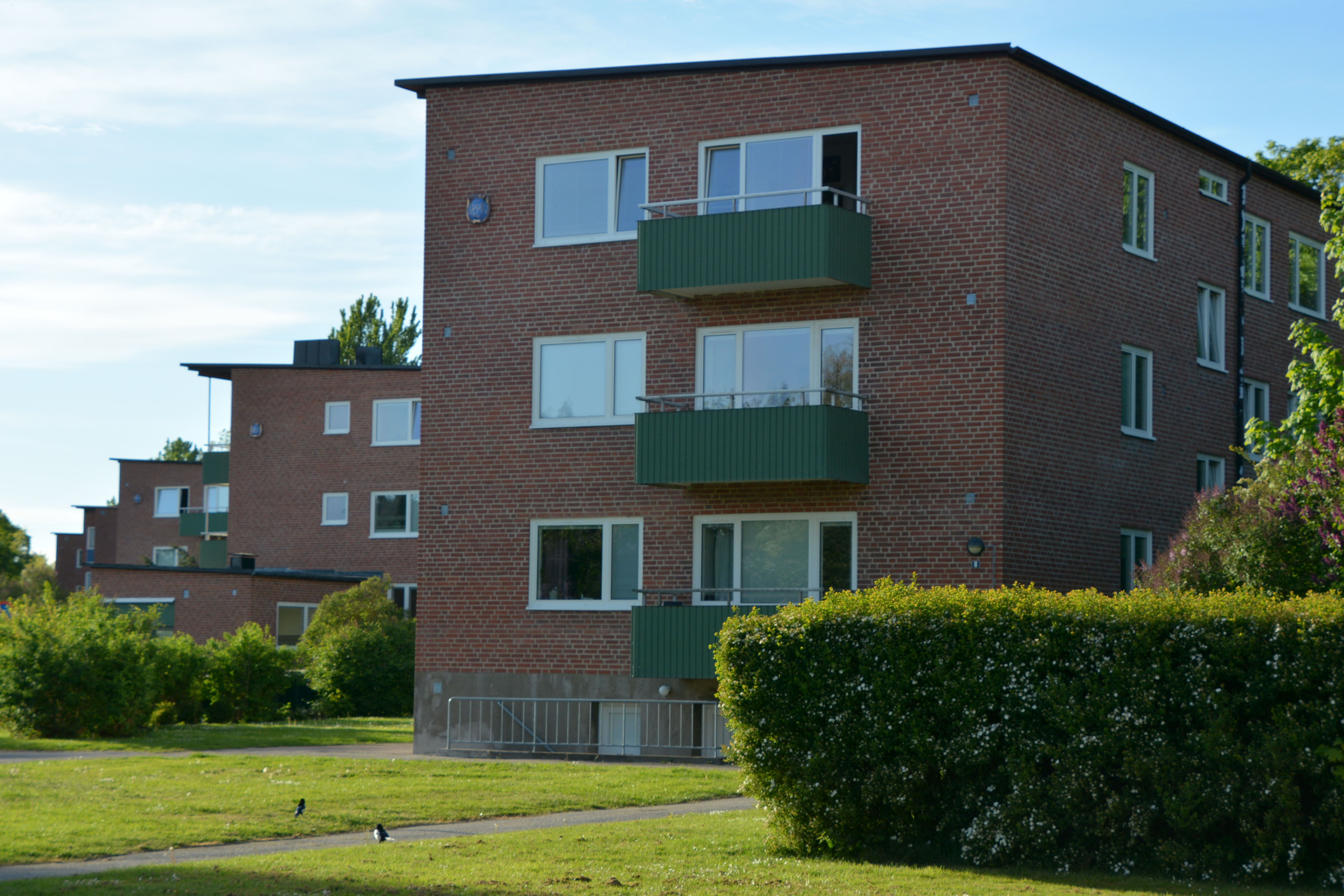 Bostadshus vid Kakelvägen på Borgmästaregården i Lund, ritade av Fred Forbat